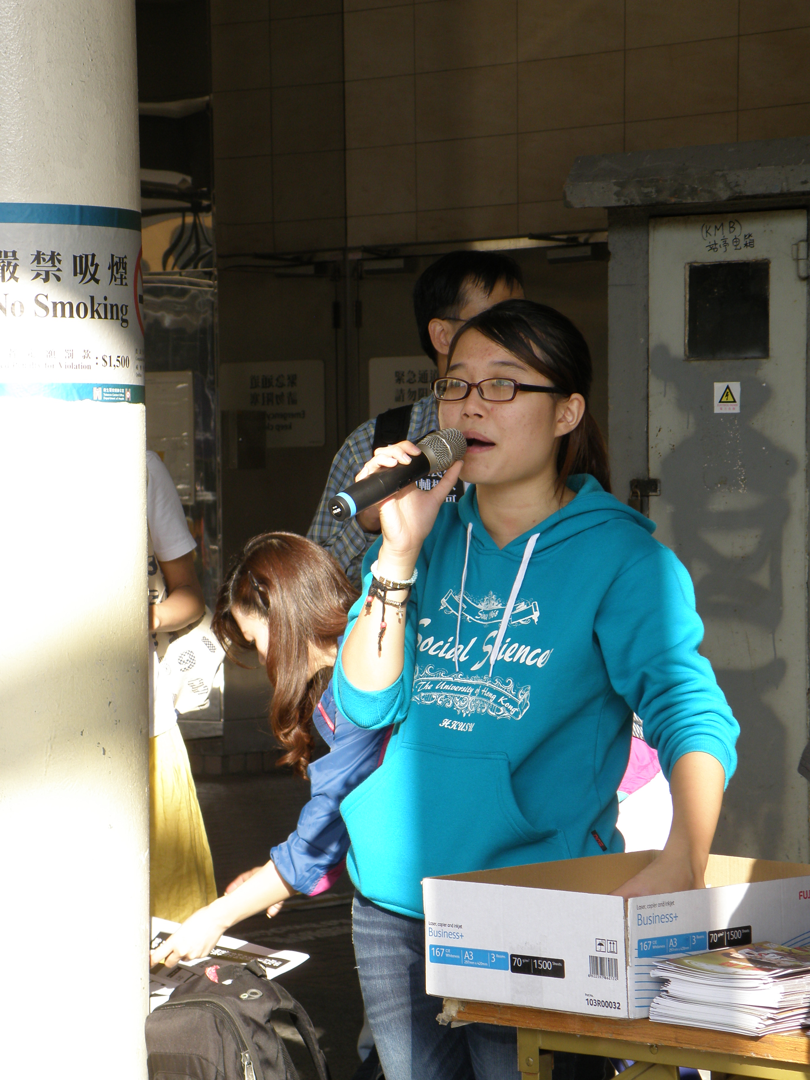 Yvonne Leung Lai-kwok, president of Hong Kong University Students' Union in session 2014